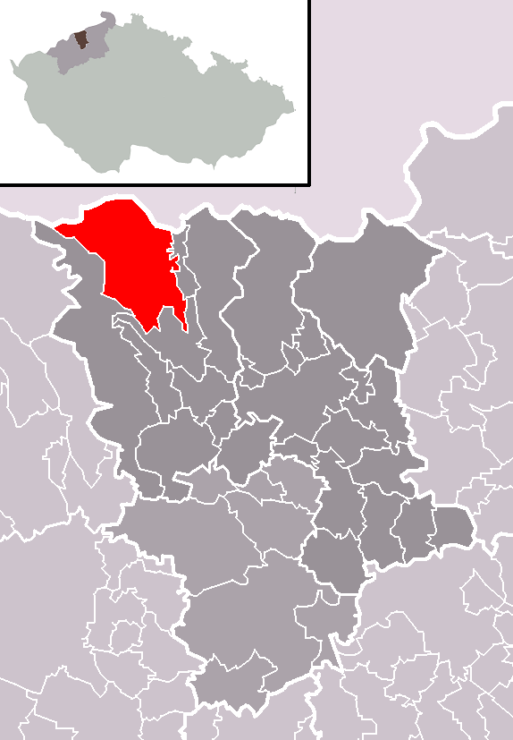 Location of Moldava municipality within Teplice District and administrative area of Teplice as a Municipality with Extended Competence.